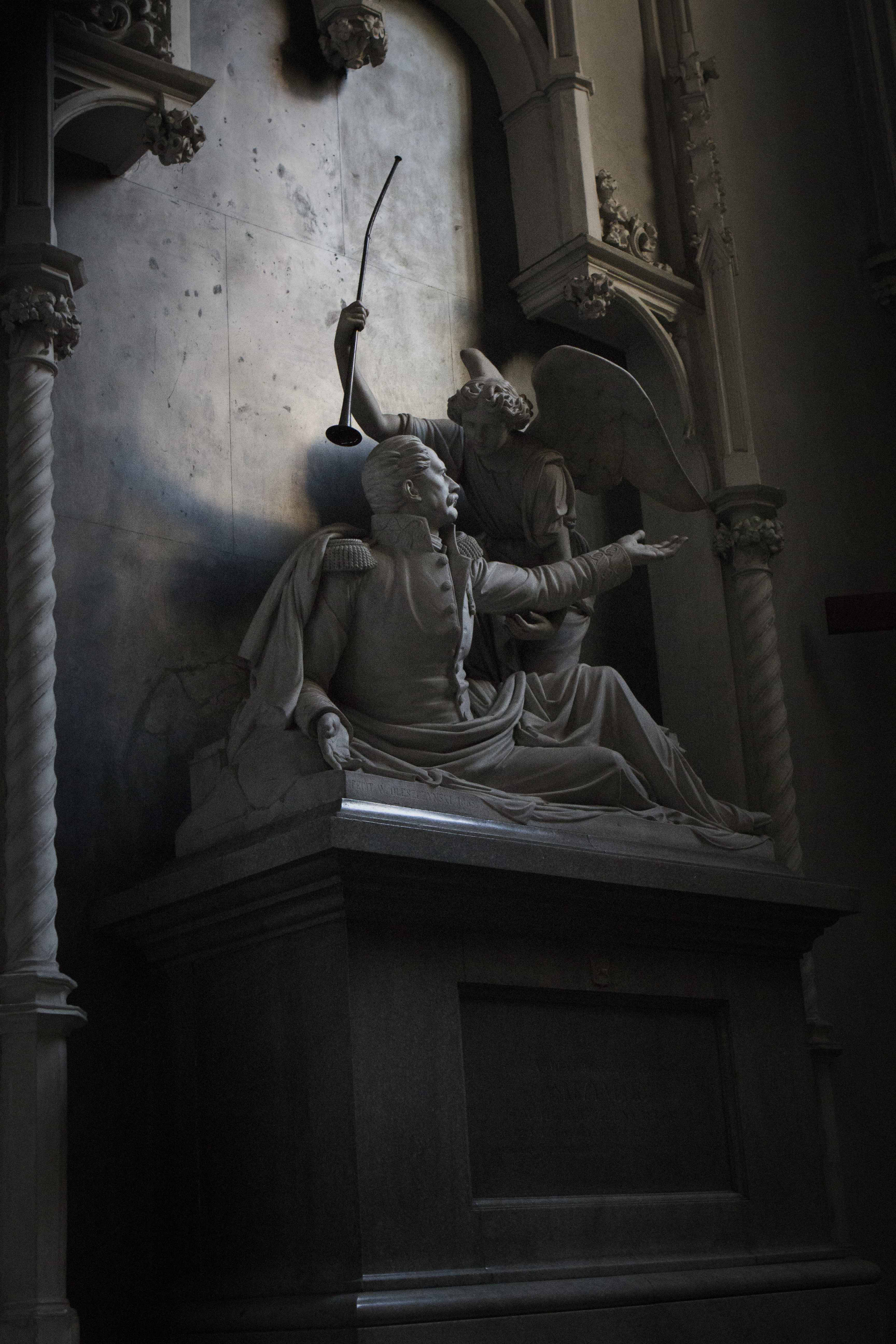 The gravestone of General Jan Zygmunt Skrzynecki by Władysław Oleszczyński in the Holy Trinity Church (Dominican church) in Cracow.